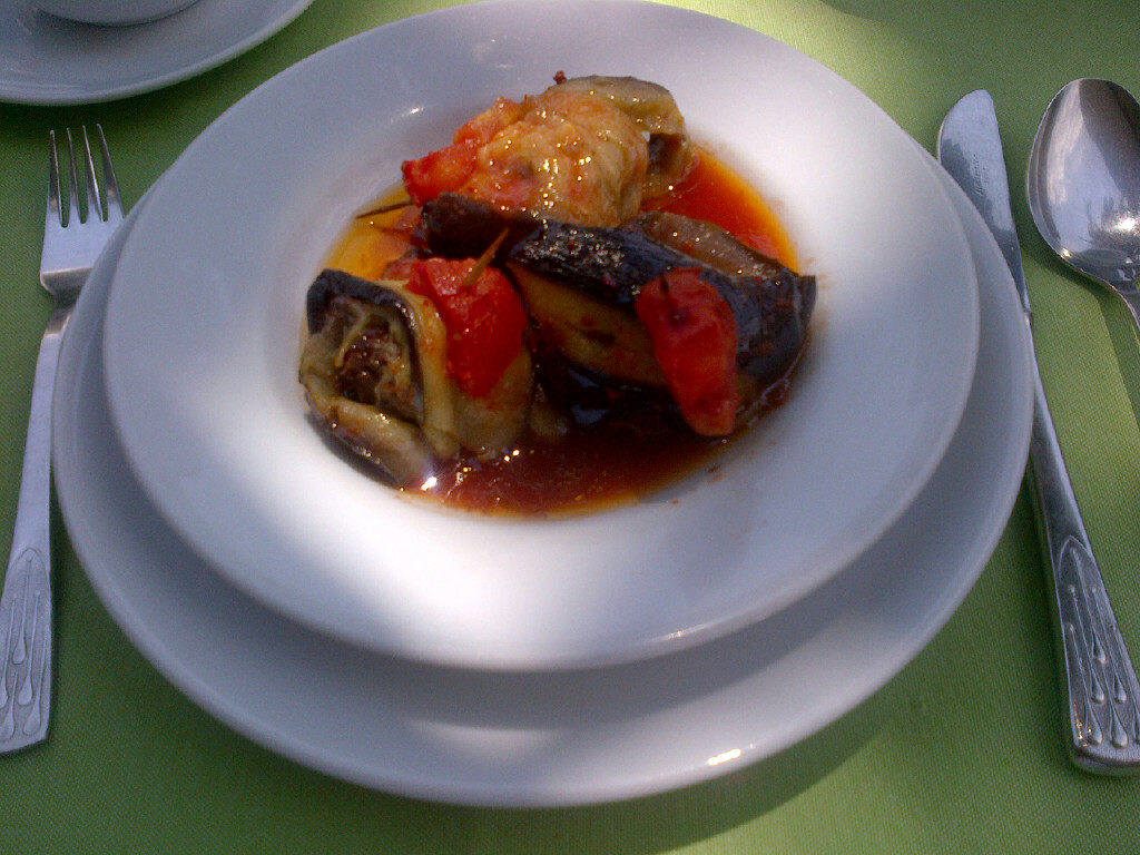 The "islim kebabı" is normally made with beef or veal sirloin but sometimes a more economic version is also made with meatballs instead of the sirloin cuts.